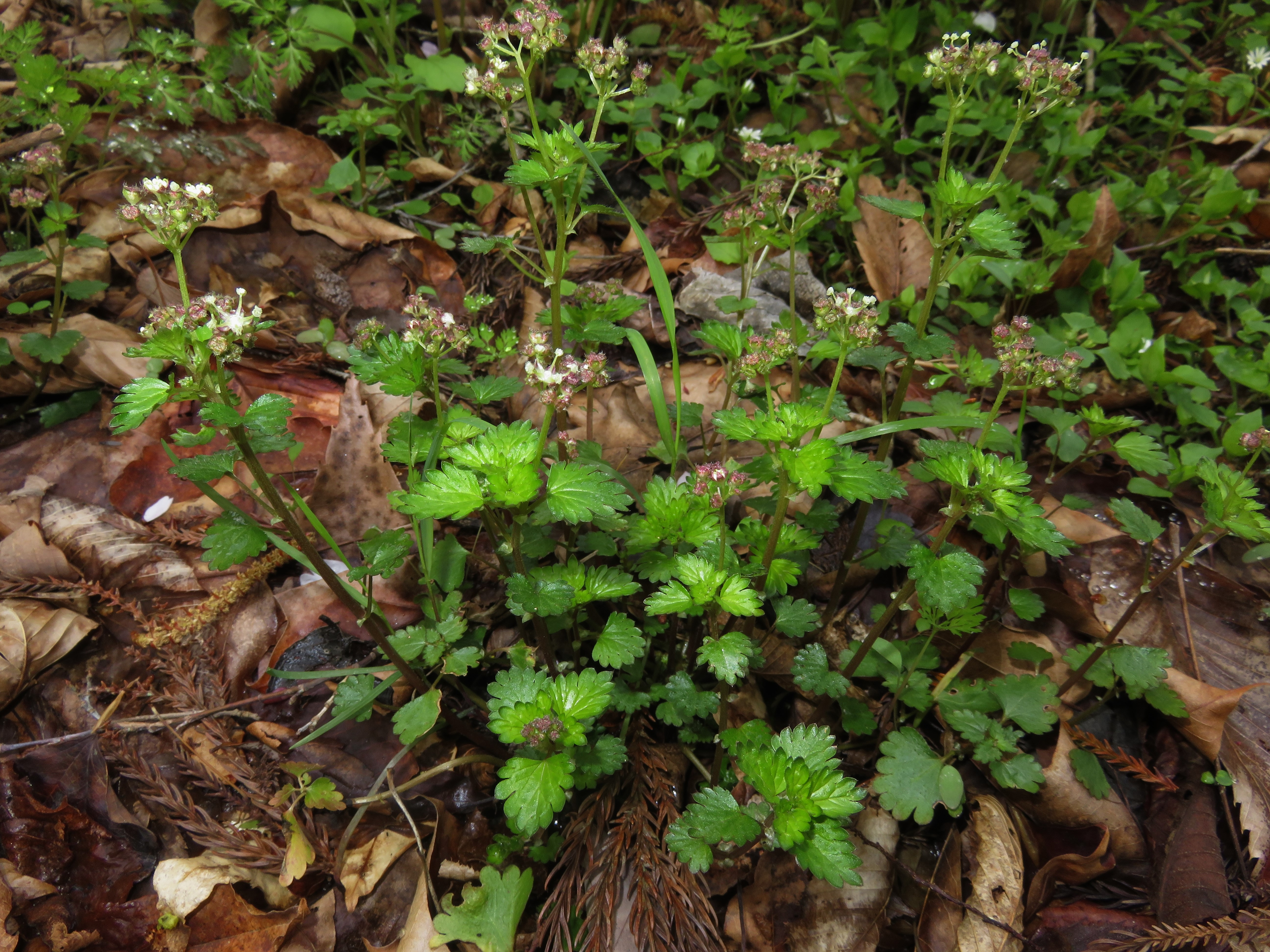 Nanocnide japonica, Hama-dori area, Fukushima pref., Japan